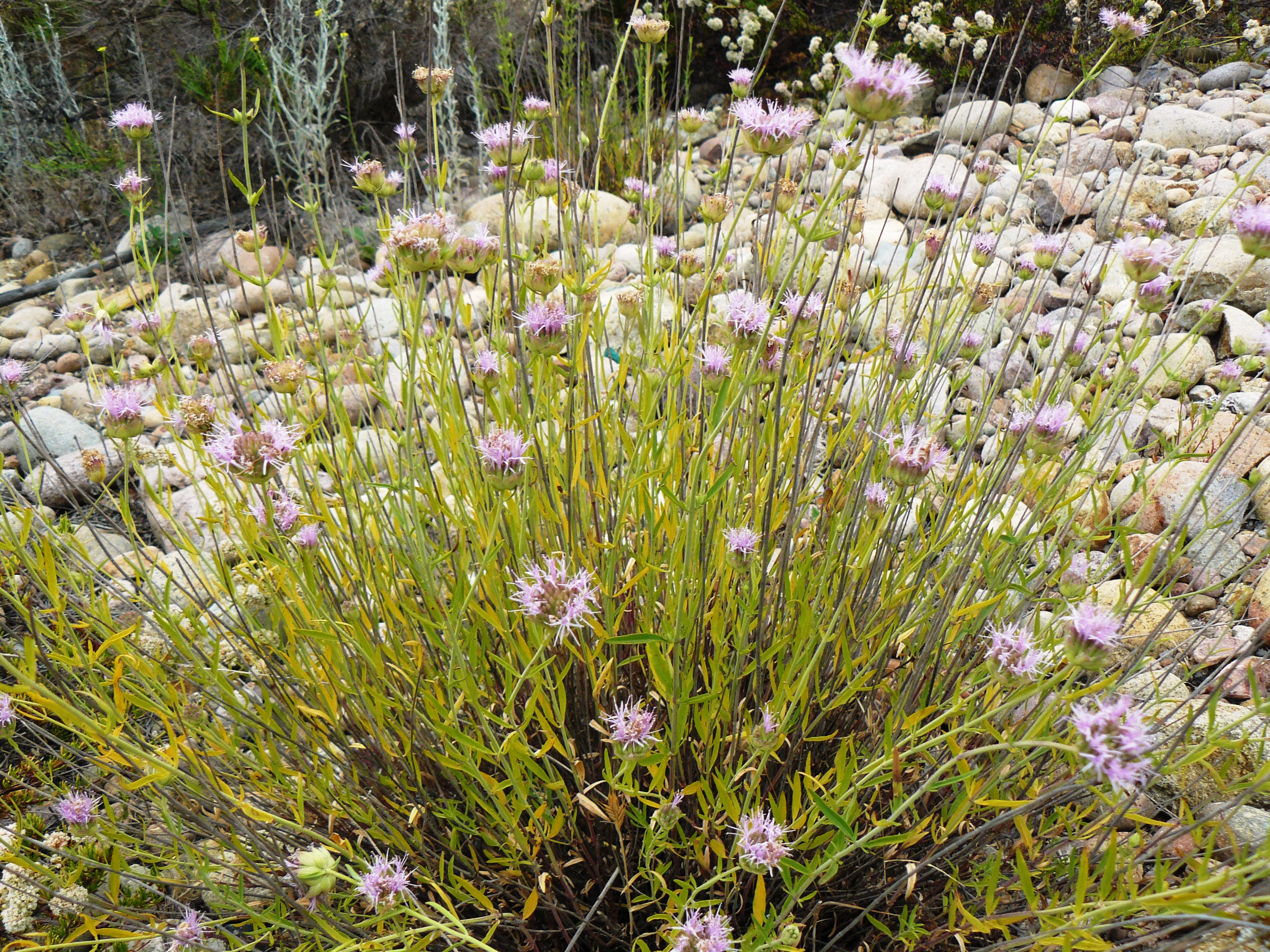 Monardella viminea — Willowy monardella. Perennial herbaceous plant in the mint family, endemic to California coastal sage and chaparral habitats in San Diego County, California. This endangered native plant is primarily found in sandy washes and floodplains in coastal sage scrub or riparian scrub vegetation. Credits Photo credit: Sabrina West/USFWS, Cleveland National Forest.